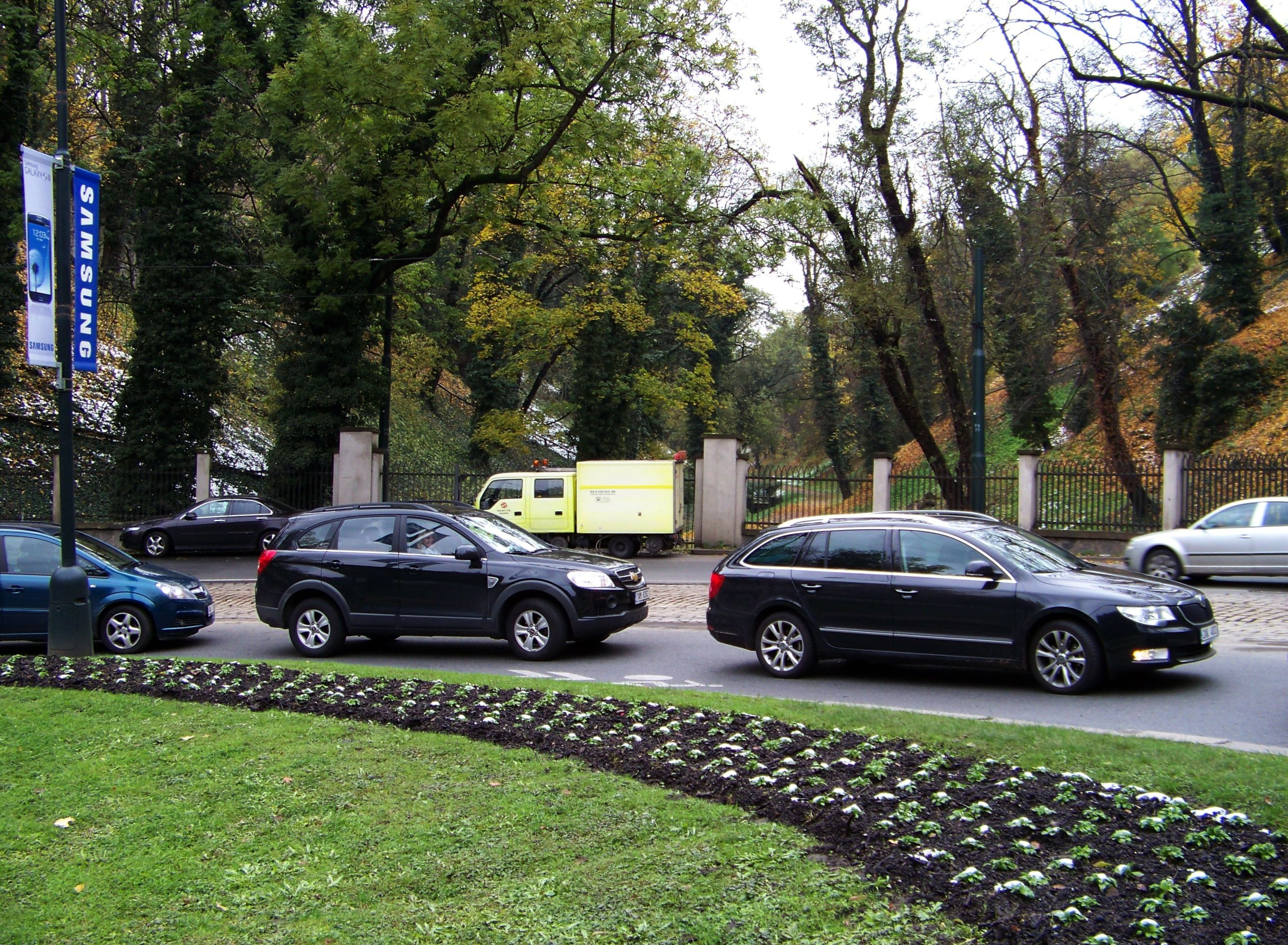 Prague-Malá Strana, the Czech Republic. Chotkova street, Jelení příkop (Deer Moat). - OpenStreetMap(Info)